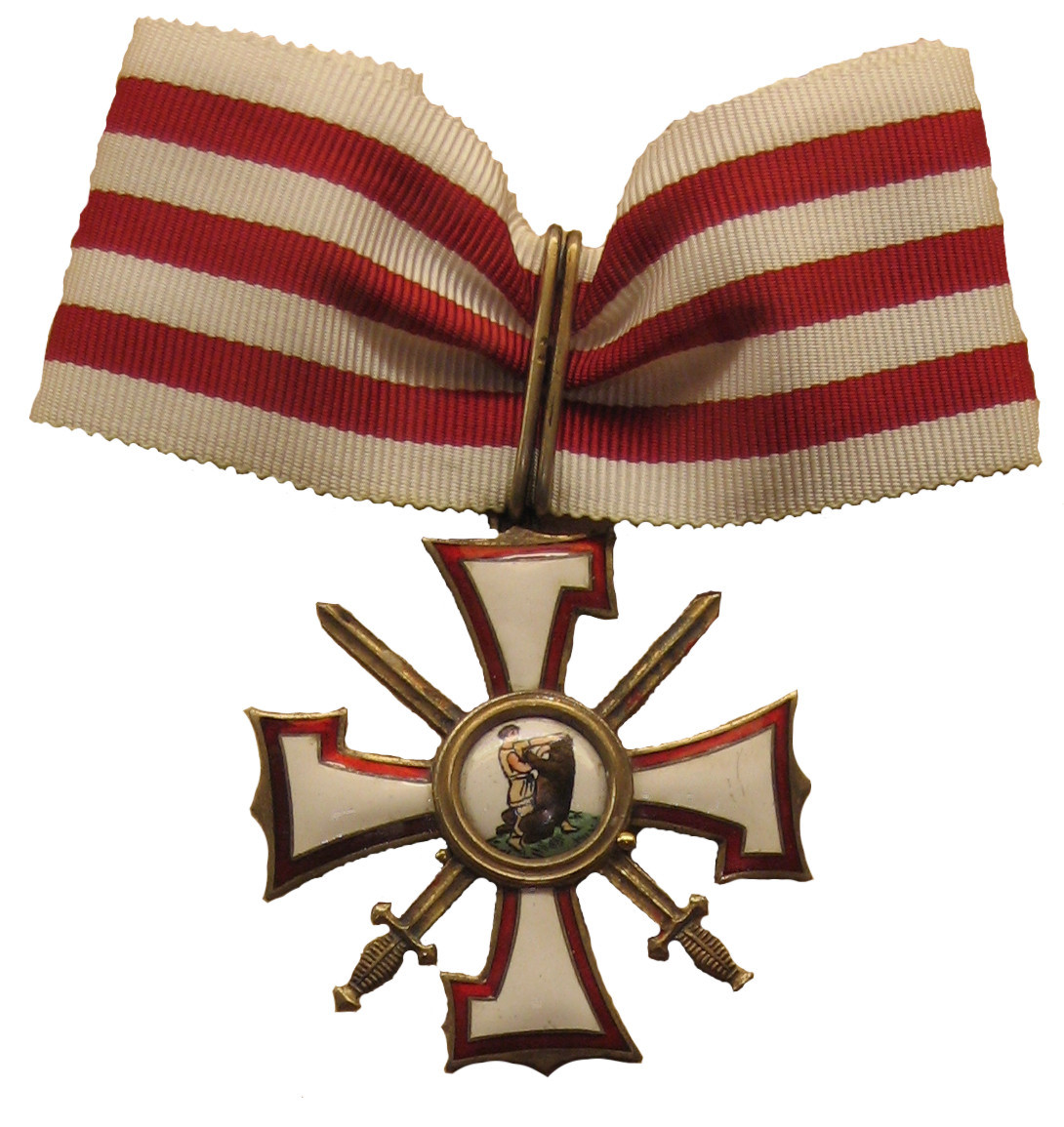 Insignia of Order of Lacplesis (Order of the Bear Killer), Latvia, 1919 to 1928.